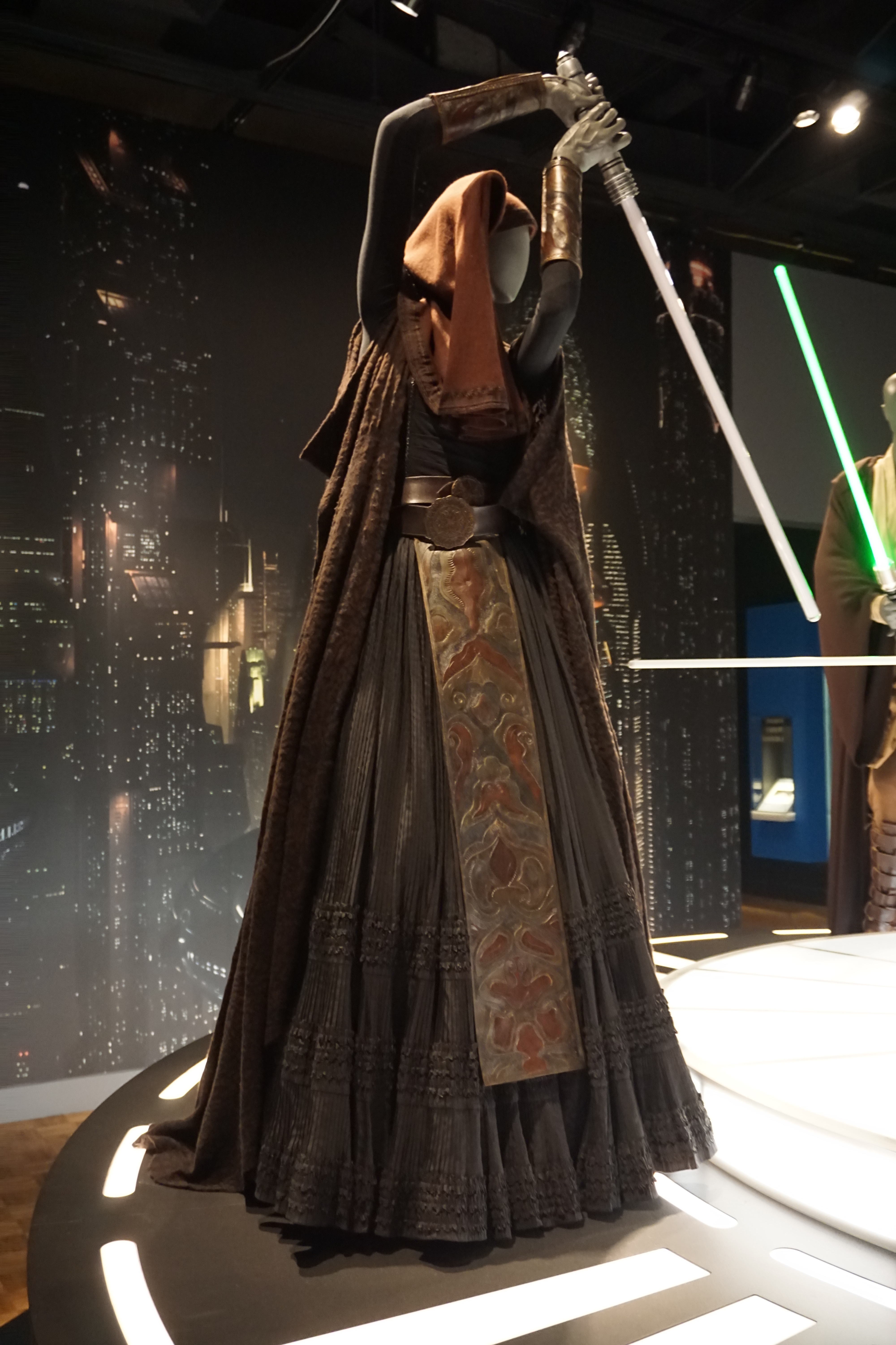 Luminara Unduli's Jedi robes from Star Wars: Episode II – Attack of the Clones on display at the Star Wars and the Power of Costume traveling exhibit at the Detroit Institute of Arts in Detroit, Michigan (United States).